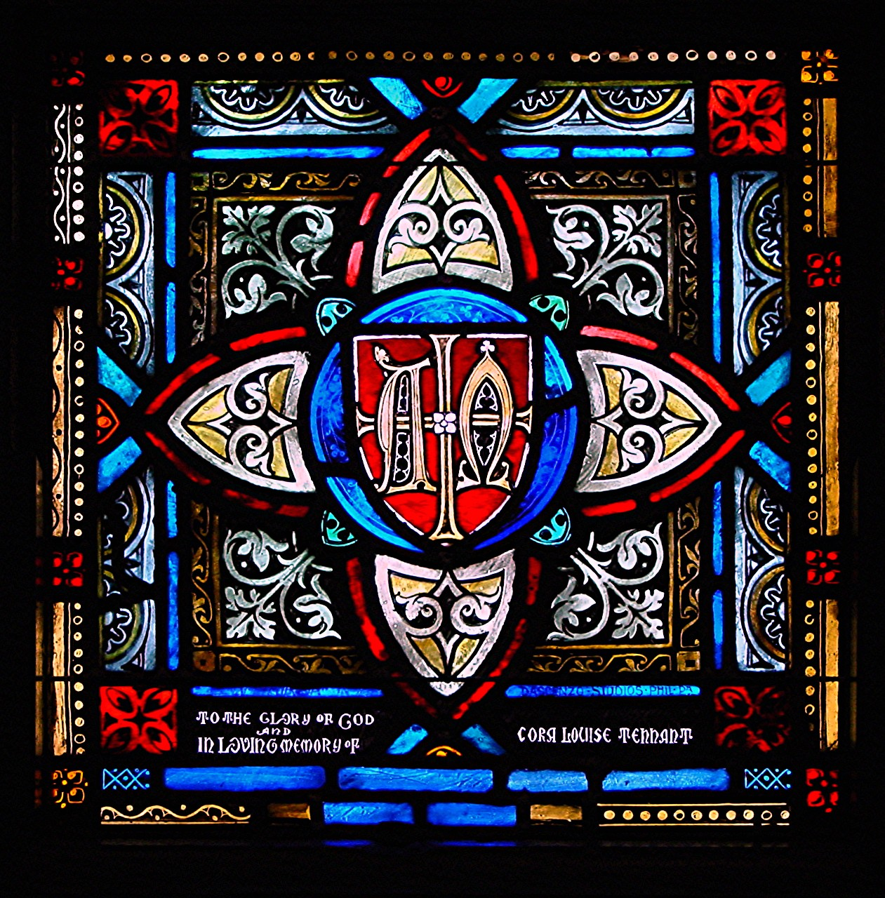 Detail of the Tennant Window, Saint John's Church, Hagerstown, MD.